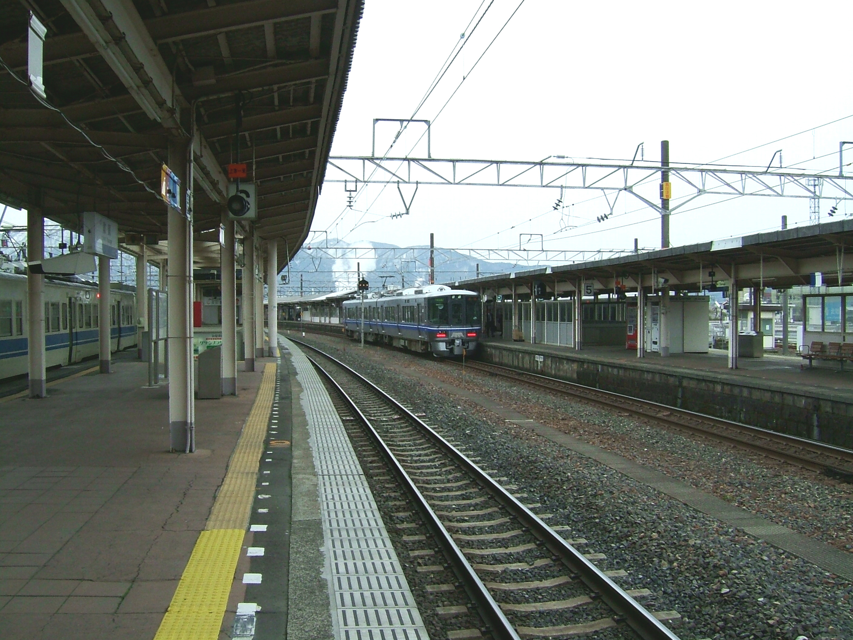 The platforms at Tsuruga Station(Hokuriku Main Line)